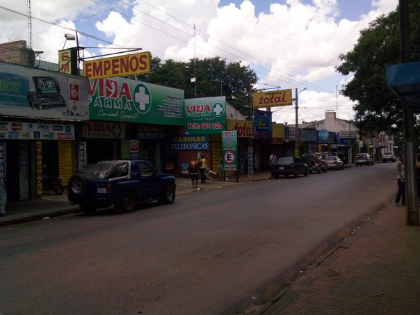 Shopping area